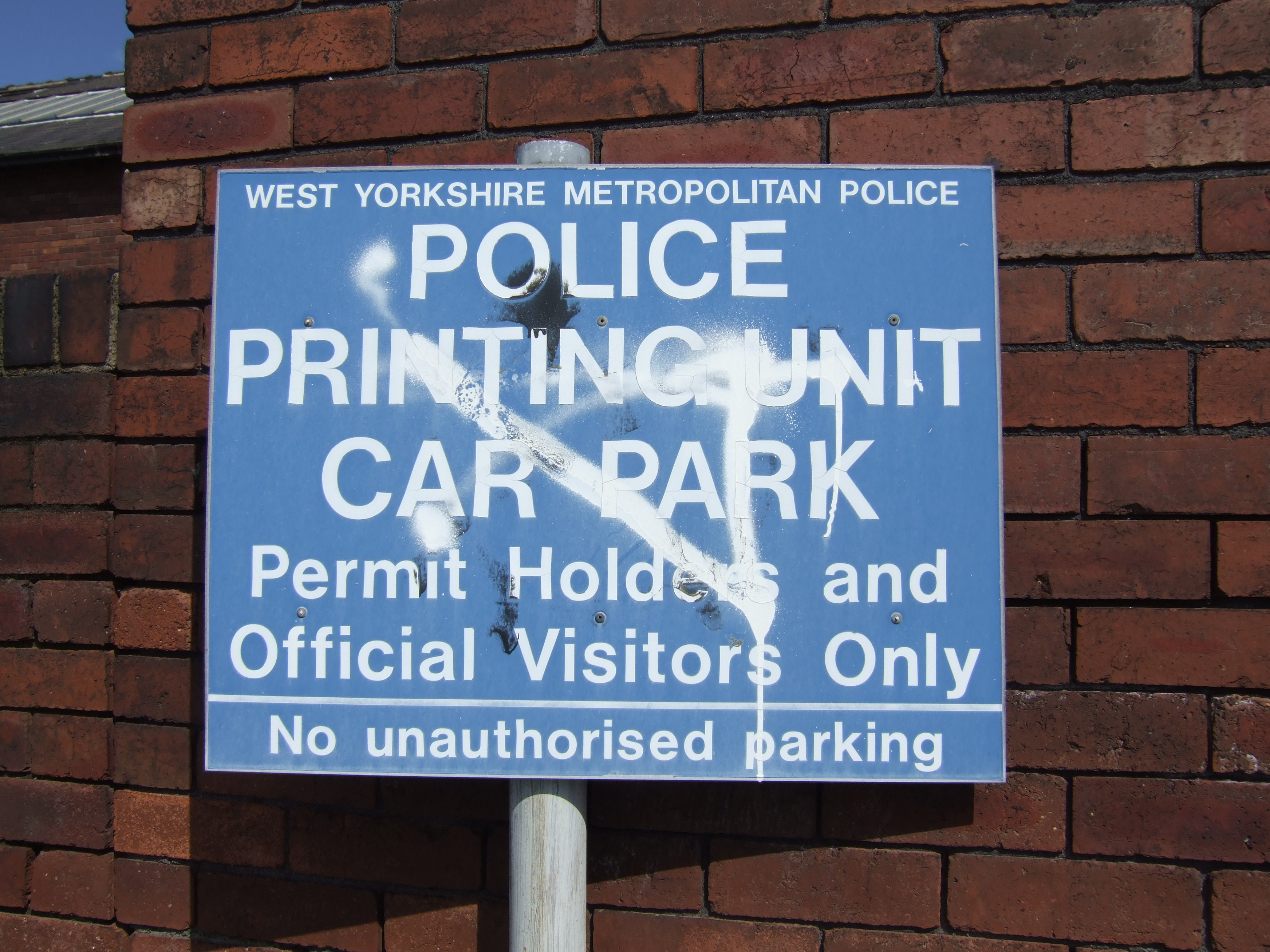 An old sign outside a former WYMP property showing the former name of West Yorkshire Metropolitan Police